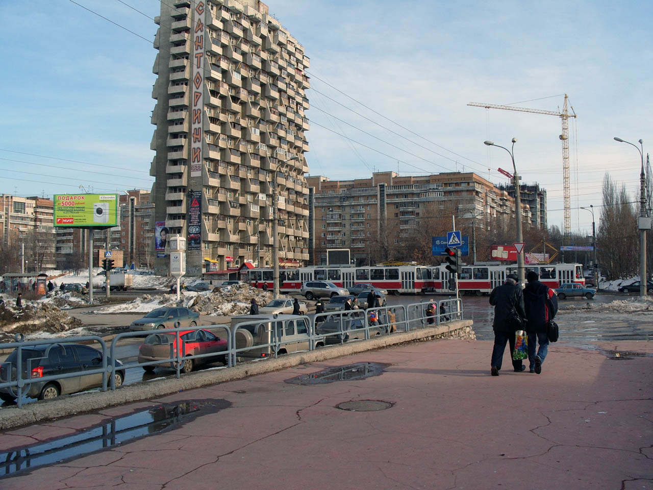 Samara, Russian, Osipenko st., Lenin st.